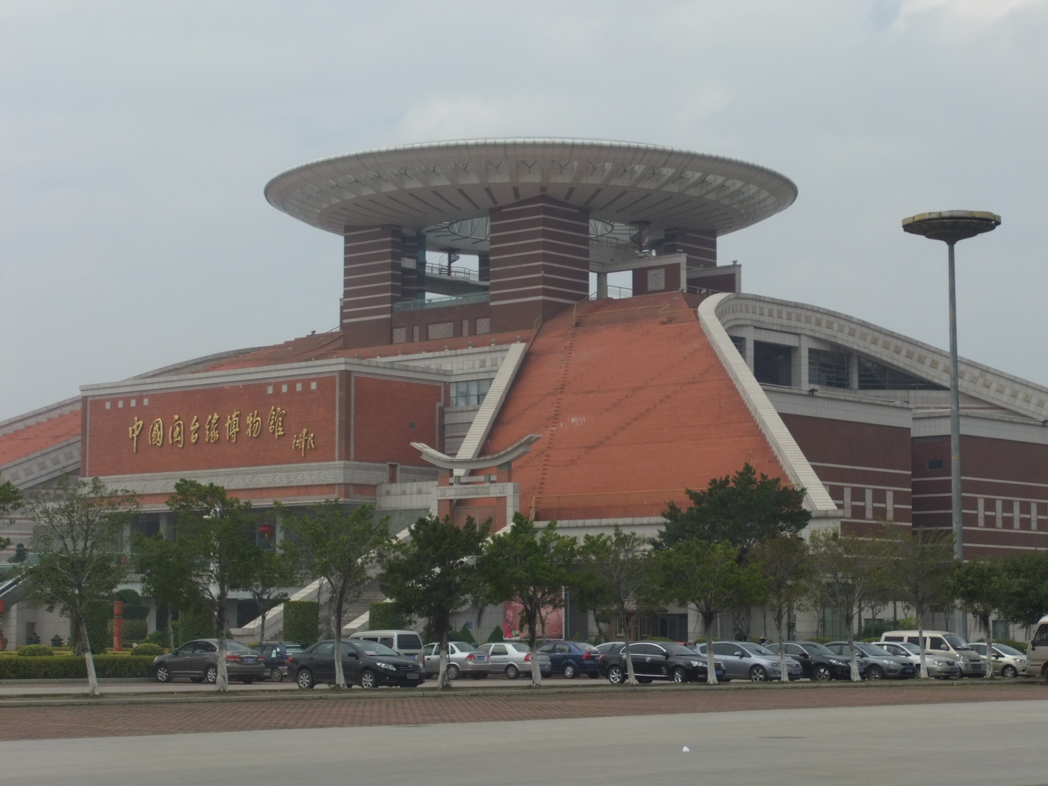 China Museum for Fujian-Taiwan Kinship, main building.